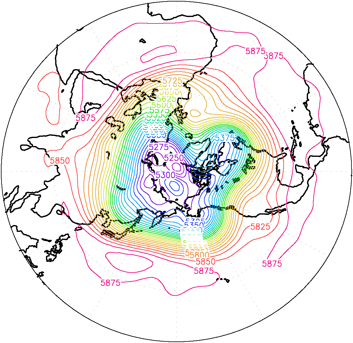 500mb geopotential height wavenumber 4 pattern. October 9-21, 2010 daily average. DOE AMIP Reanalysis. NOAA-ESRL data and graphics engine.